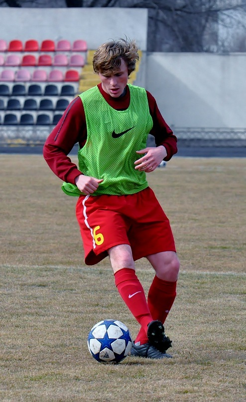 Oleksandr Sklyar, midfielder of FC Zirka Kirovohrad